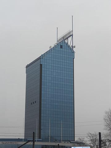 Cracovia Business Center (Błękitek) in Kraków.